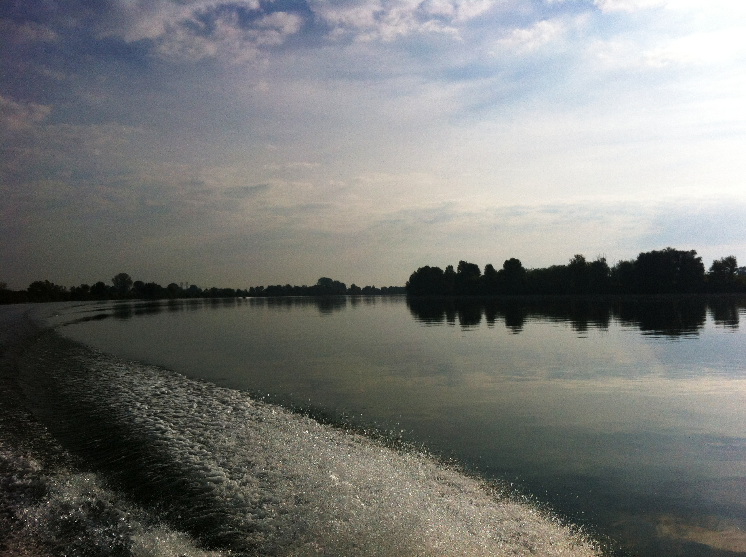 This is a photo of a monument which is part of cultural heritage of Italy.